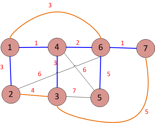 step 8 for debug Kruskal